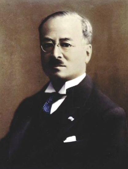 Japanese Lord Keeper of the Privy Seal Kōichi Kido (1889–1977, in office 1940–45)